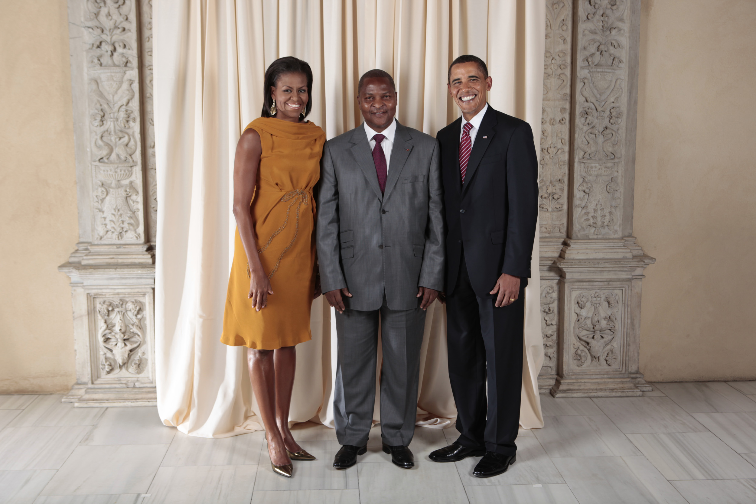 President Barack Obama and First Lady Michelle Obama pose for a photo during a reception at the Metropolitan Museum in New York with Faustin Touadera of the Central African Republic.